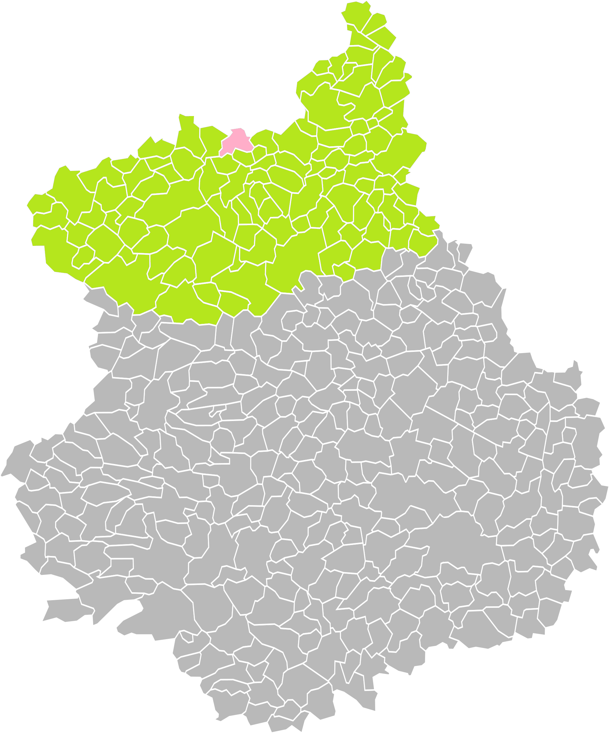 Location of the commune of Saint-Rémy-sur-Avre in the arrondissement of Dreux (Eure-et-Loir)